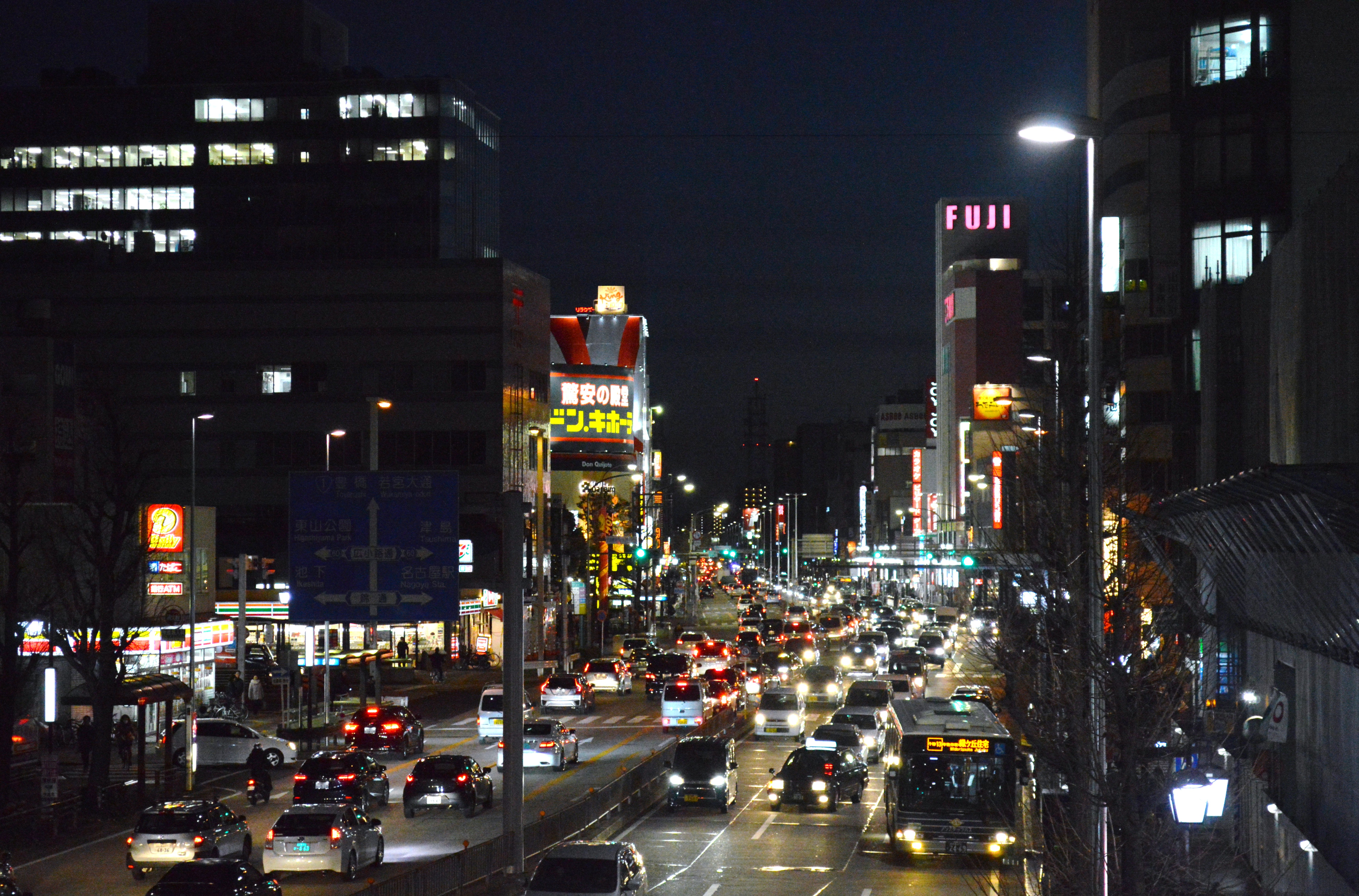 愛知県名古屋市 今池